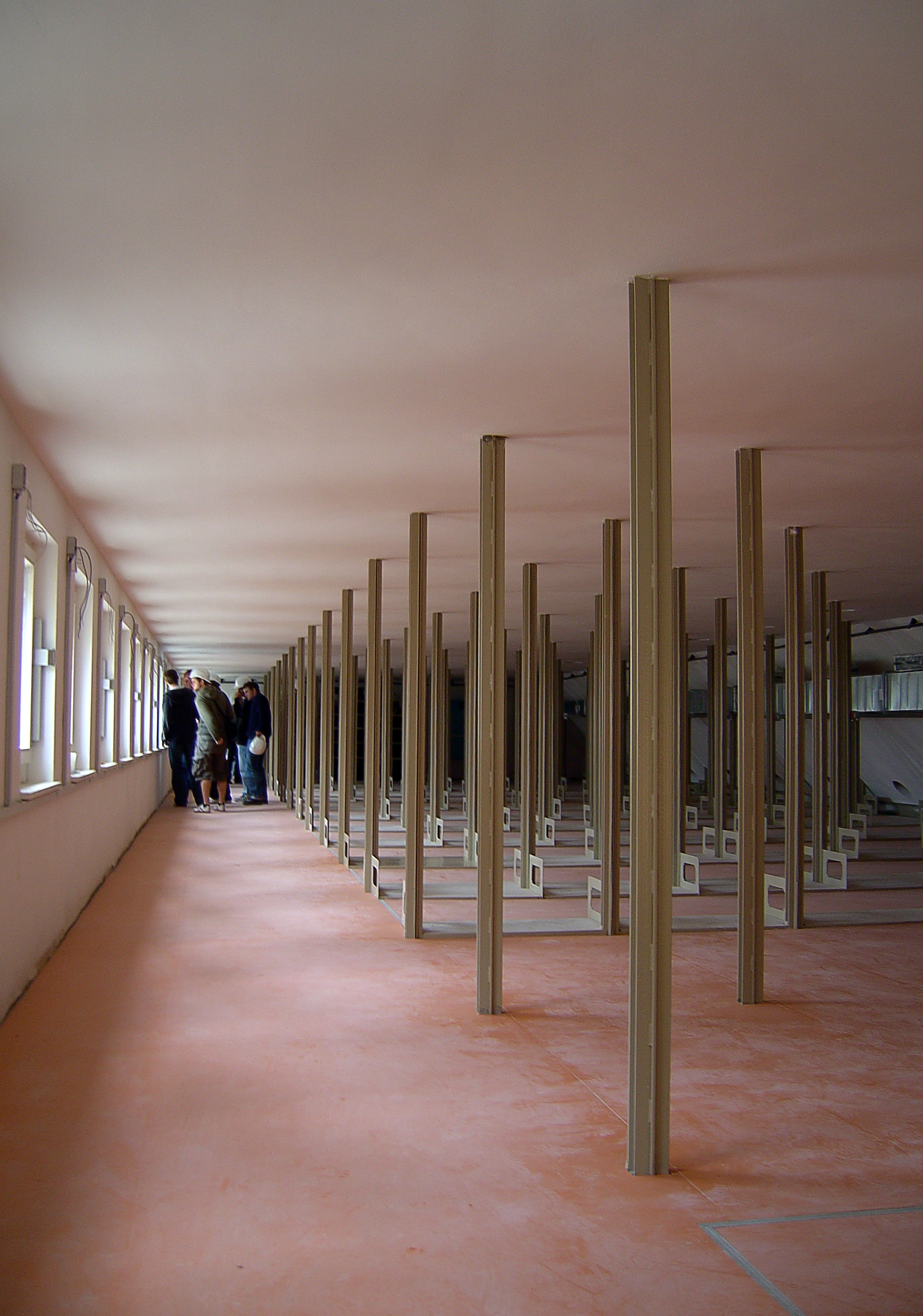 One floor of the magazine of the Staatsbibliothek zu Berlin (Haus Unter den Linden) showing the structure of the Lipman-Regal shelving system after restoration in 2008